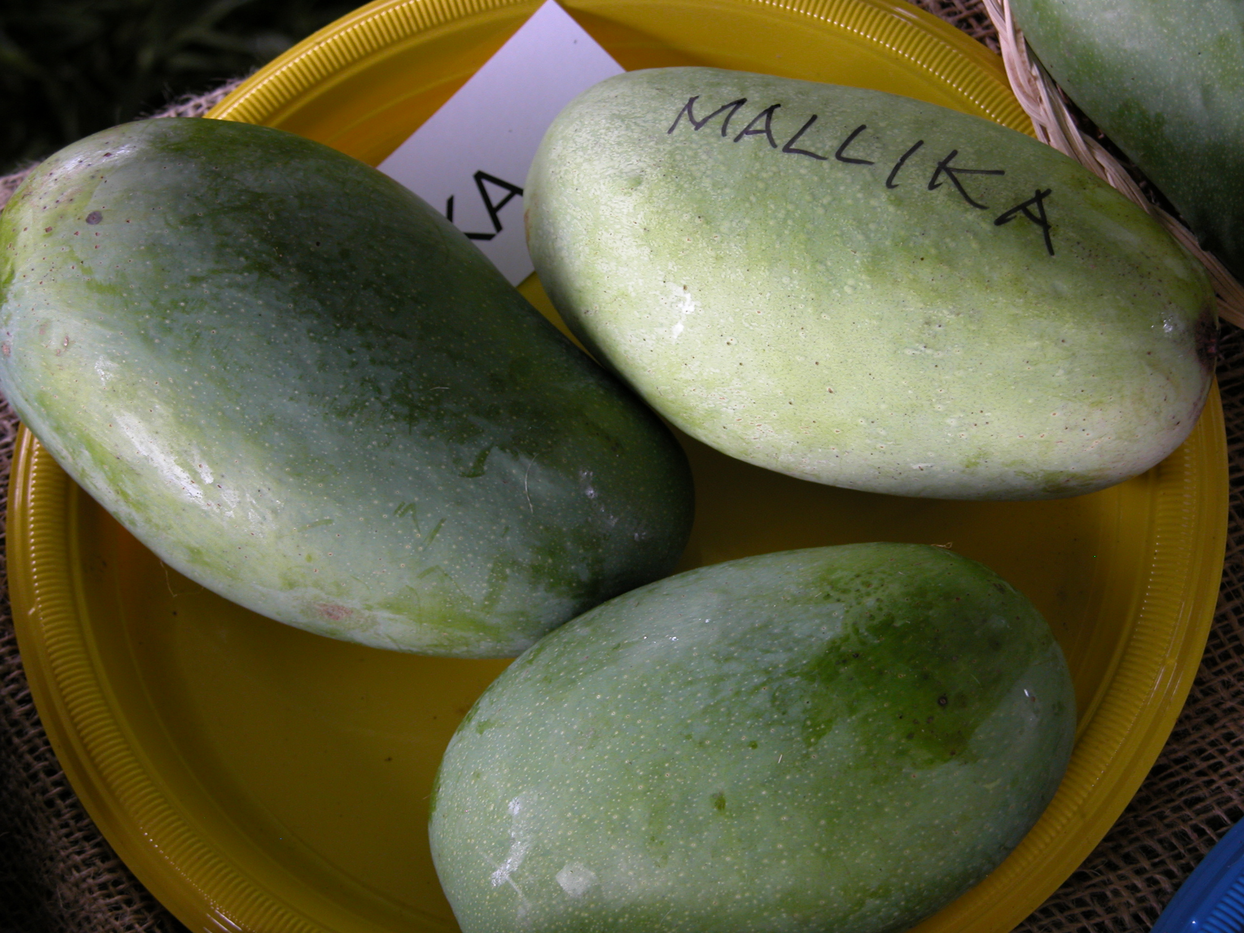 Display at Fruit & Spice Park, Homestead, Florida